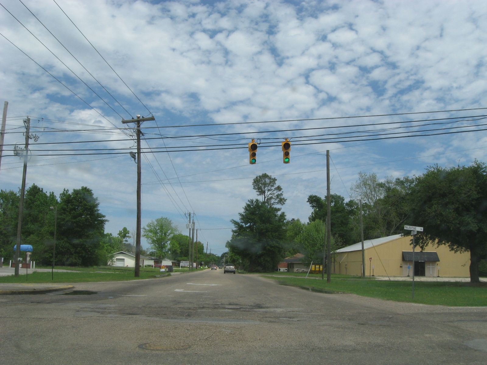 Corner of Beech Street and Palestine Road. Beech Street is to the north. this is in straight up ghetto.